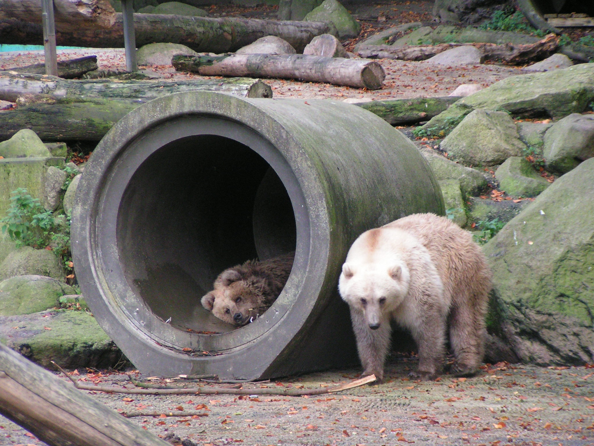 Pizzlies in Osnabrück